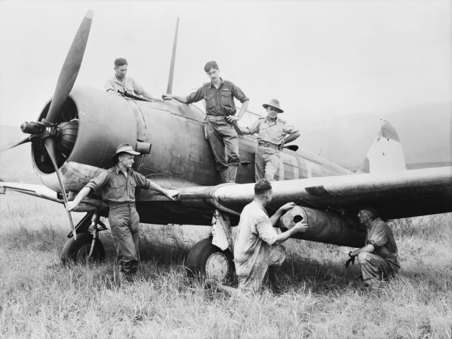 Gusap, Ramu Valley, New Guinea. 1944-01-02. 405747 Flying Officer R.D. Lee-Warner with members of No. 4 (Tactical Reconnaissance) Squadron's ground staff who are engaged in attaching containers to the bomb racks on a Wirraway. The containers hold Christmas comforts given by American units in the Gusap area to men of the 7th Division.